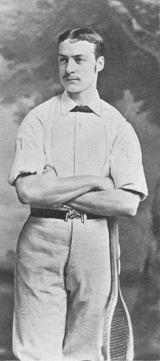 English tennis player Ernest Wool Lewis (1867-1930)